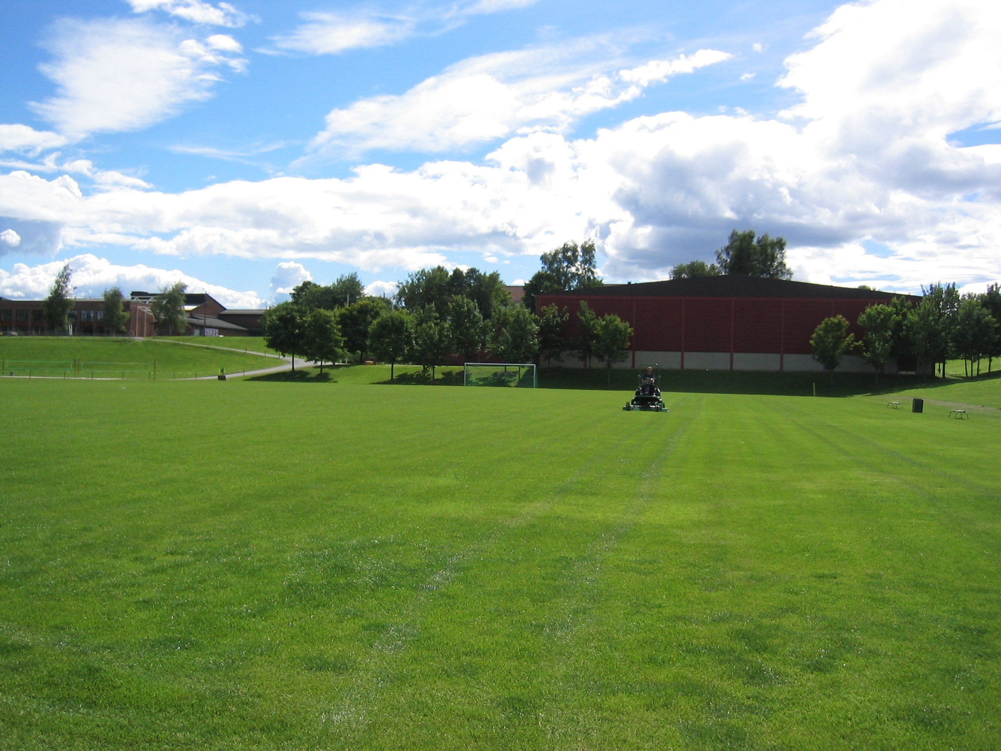 Photo of Lier Stadion (stadium) in Lier muncipality, Norway. Home ground of sports club Sparta/Bragerøen.